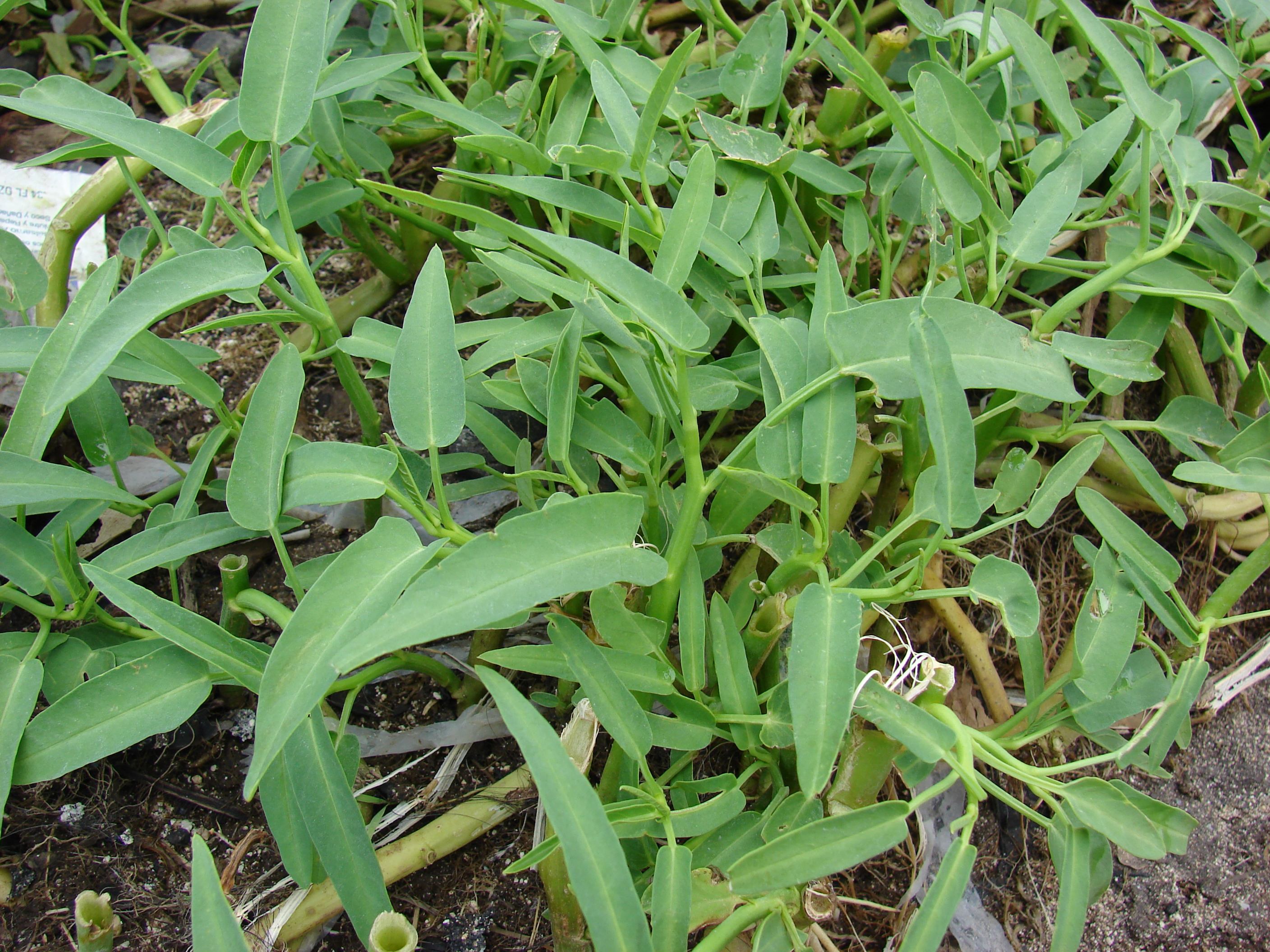 Ipomoea aquatica (habit). Location: Oahu, Keehi Lagoon